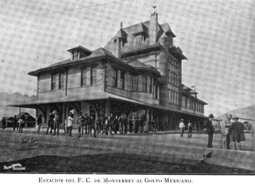 Picture of the "Estación del Golfo" from 1902. In that time this train station was call Union Station and now (2008) it is a Museum.